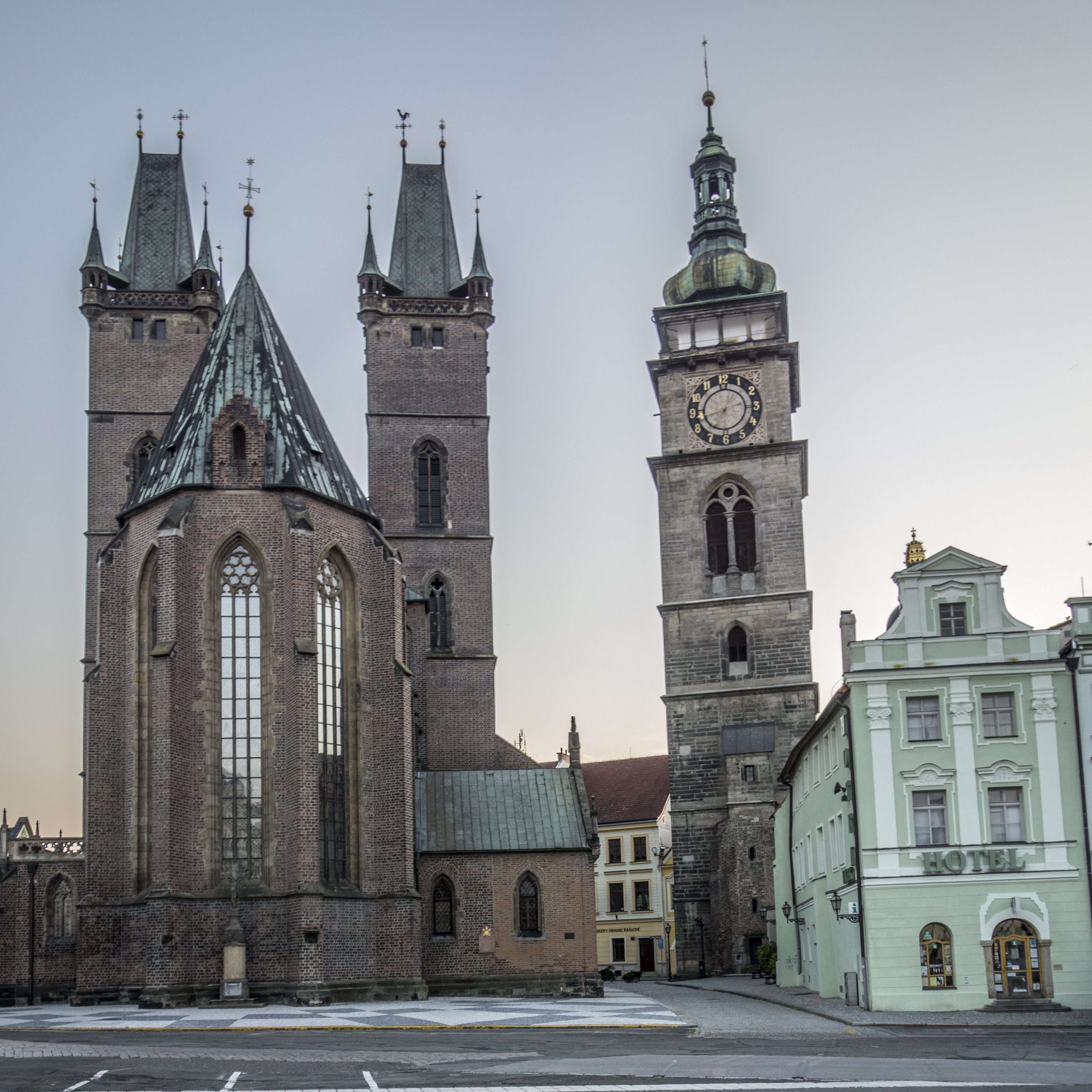 Cathedral of the Holy Spirit (Hradec Králové)